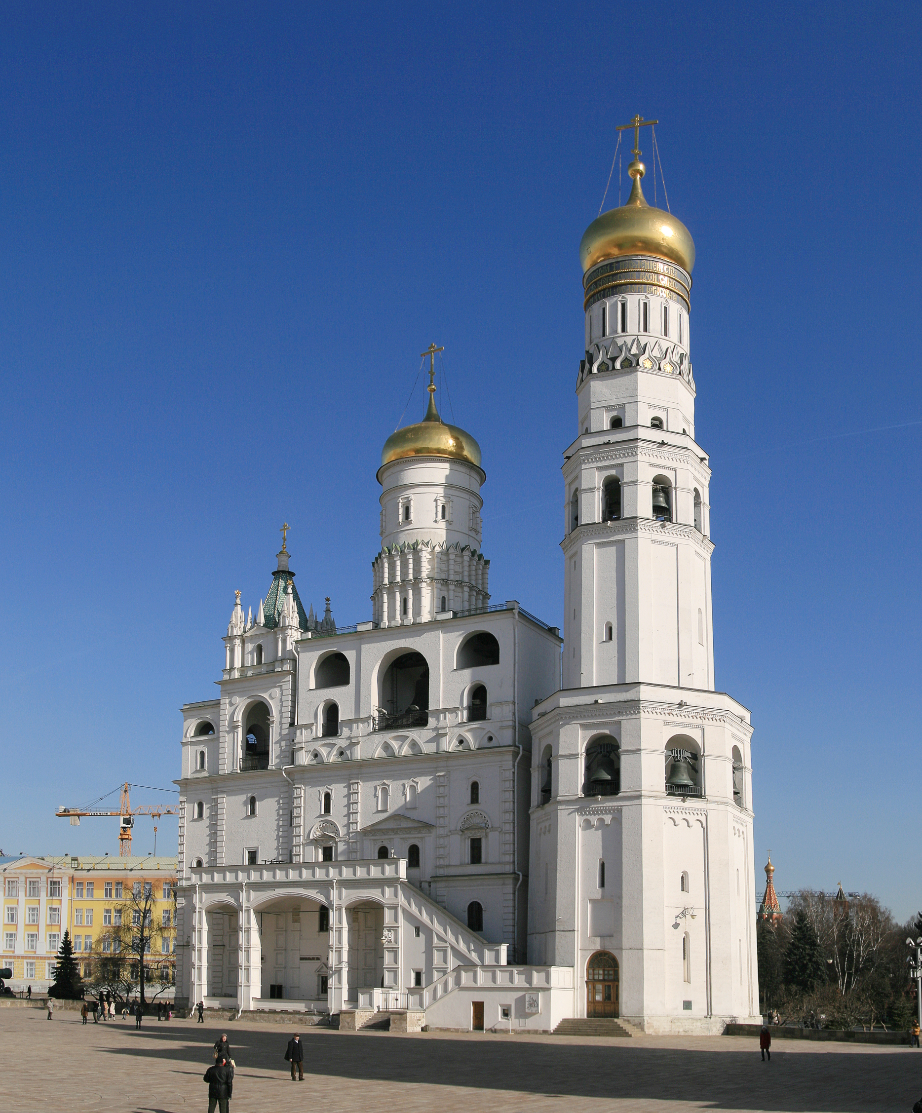 Moscow Kremlin, Ivan the Great Bell Tower